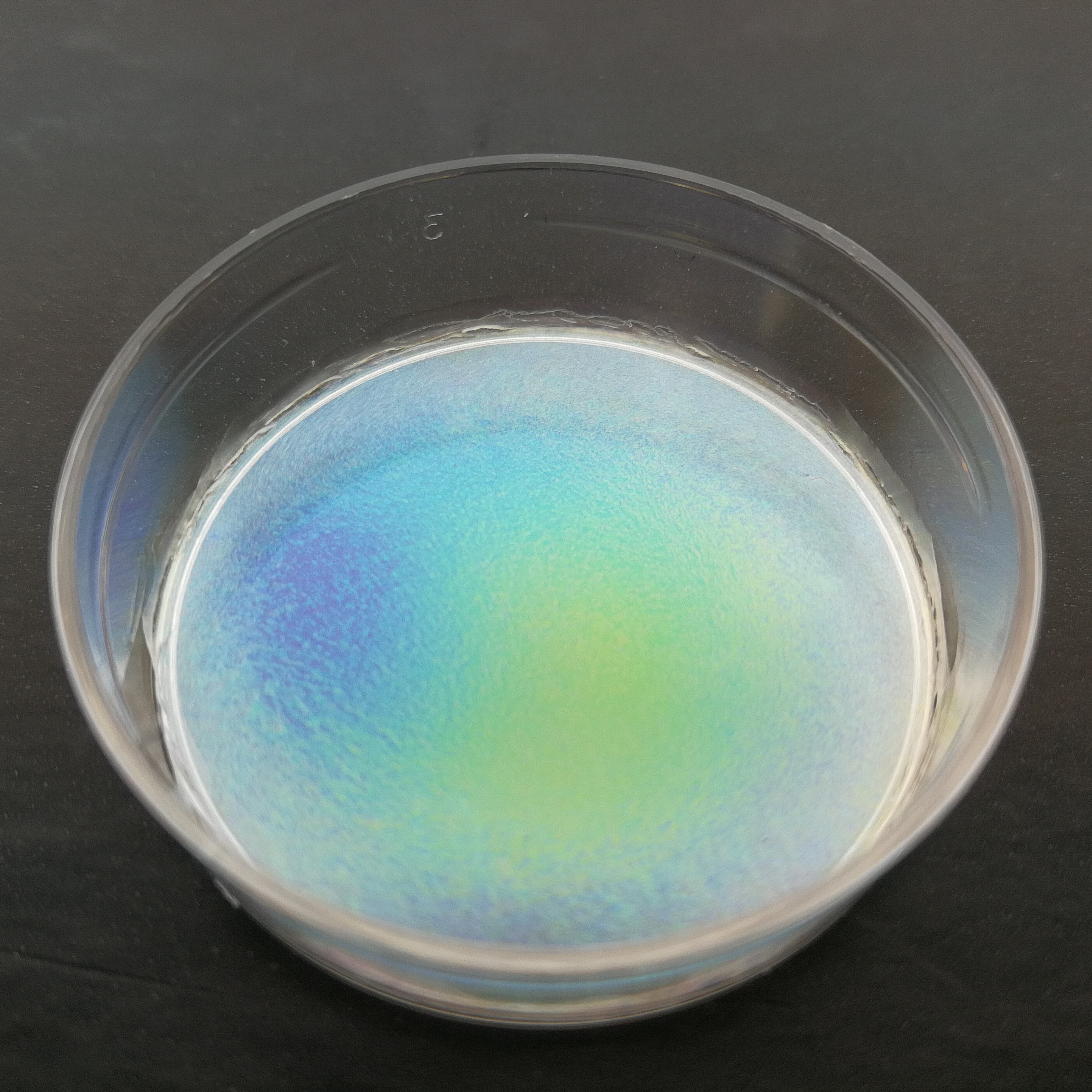 The reflected colour in the blue-green visible region arises from the self-assembled cellulose nanocrystals.